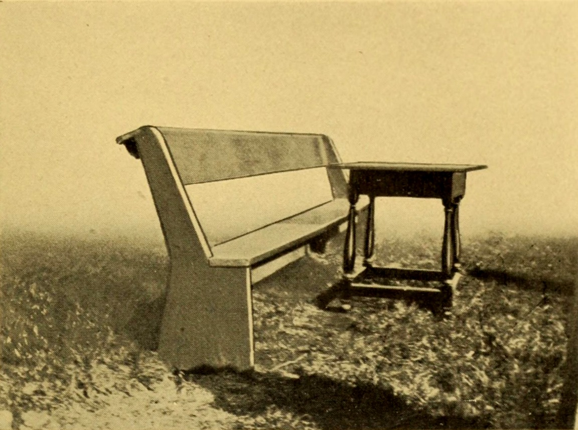 Black and white photograph of a school bench and desk used by Christopher Dock in his school in Germantown, Pennsylvania